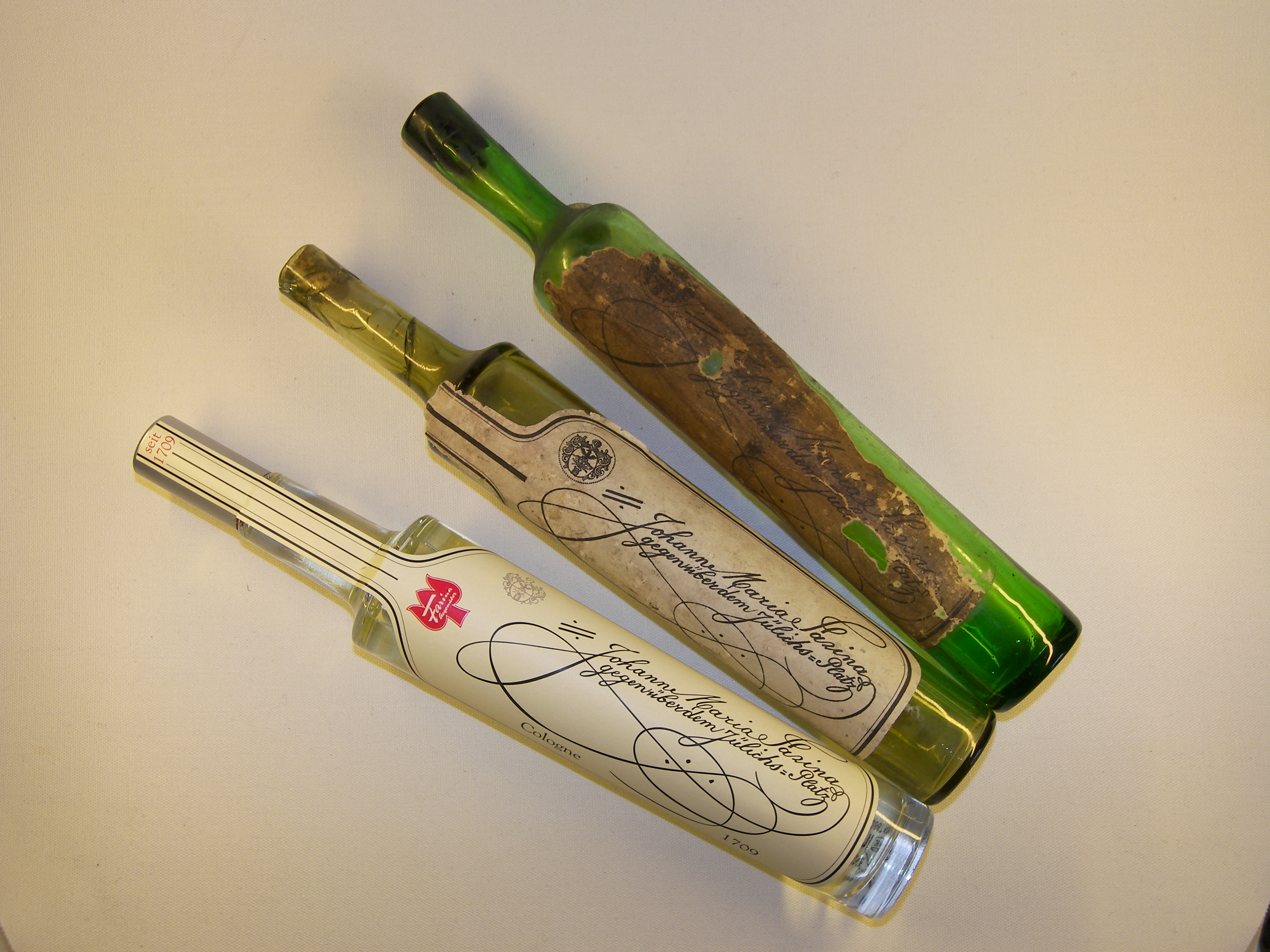 Farina flacons of th 18th, 19th, 20th century